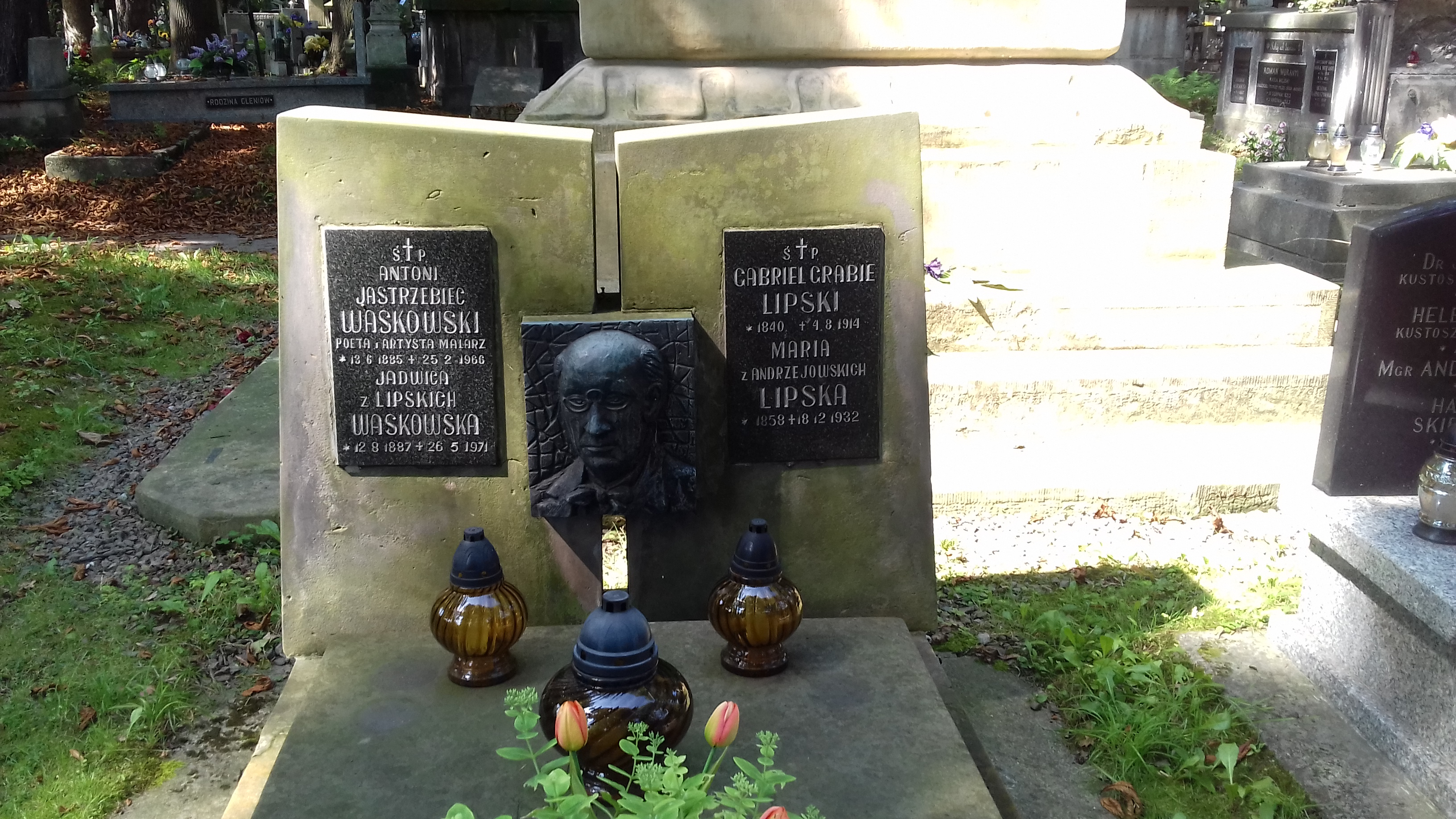 Antoni Waśkowski grave